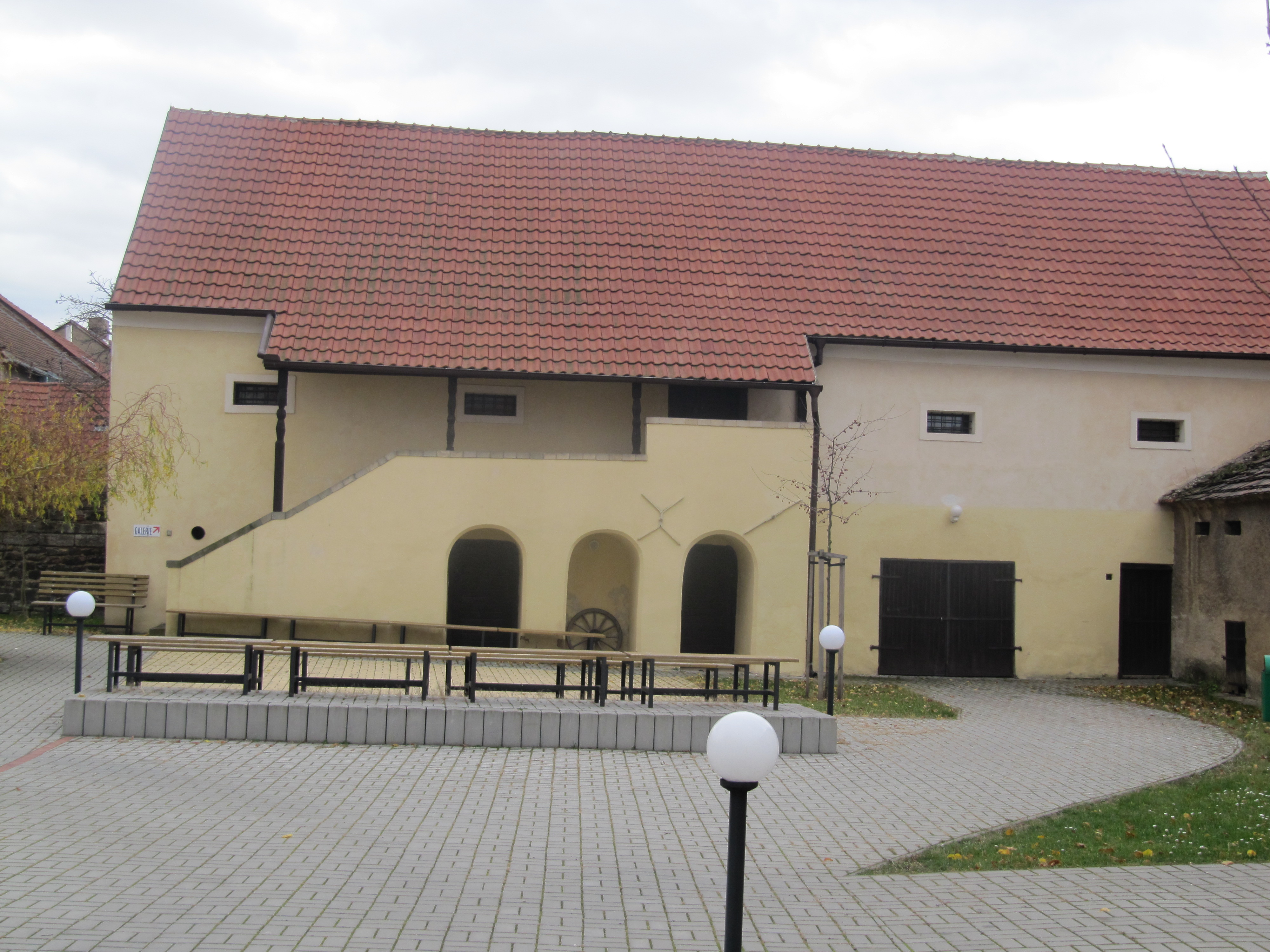 Velvary in Kladno District, Czech Republic. Grange, now the J. Corvin-gallery. Jiří Corvin